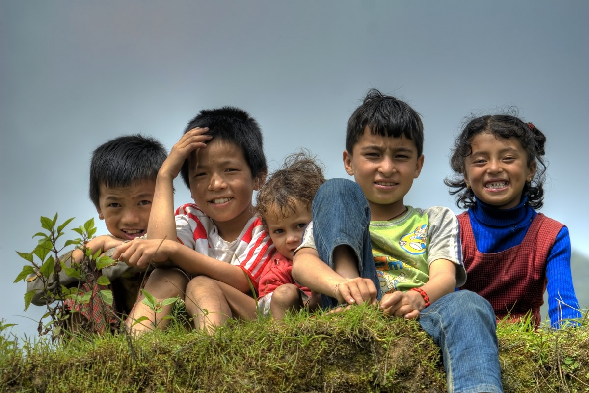 took this one on the way to Pakhribas. when i took the shot there were two of them as soon as they saw me take pictures they all joined in..